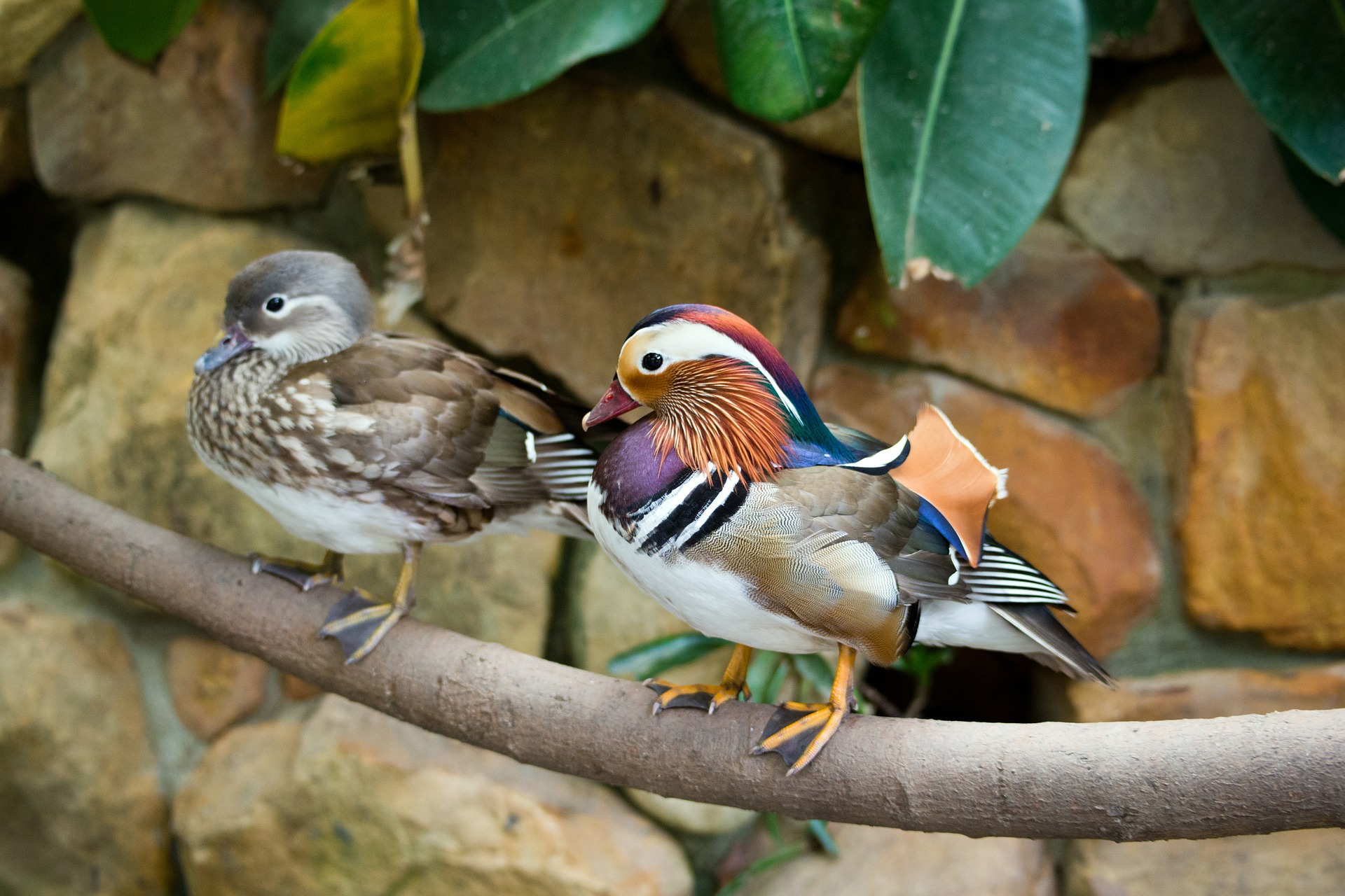 Male and female mandarin ducks sitting on branch near wall